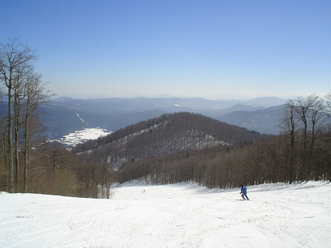 Panorama Bjelolasica, Croatia.